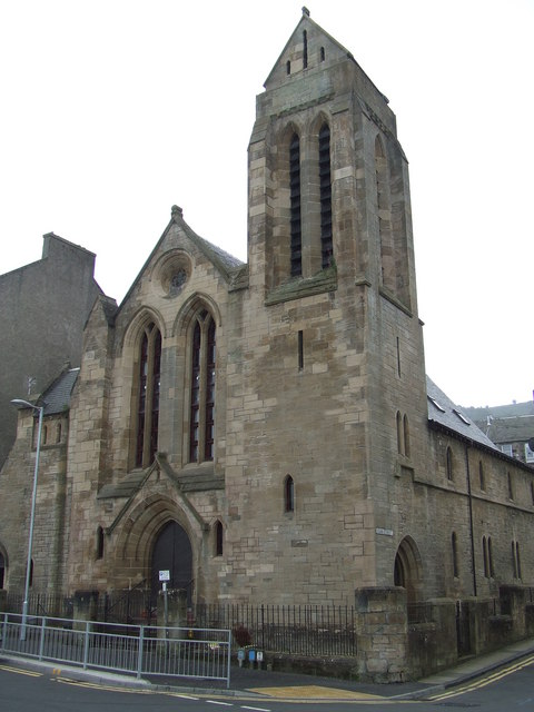 Former West Church B Listed building, converted to flats several years ago. Originally known as Newark Free Church, designed by Sir John Burnett in 1885. Read more about Burnett here